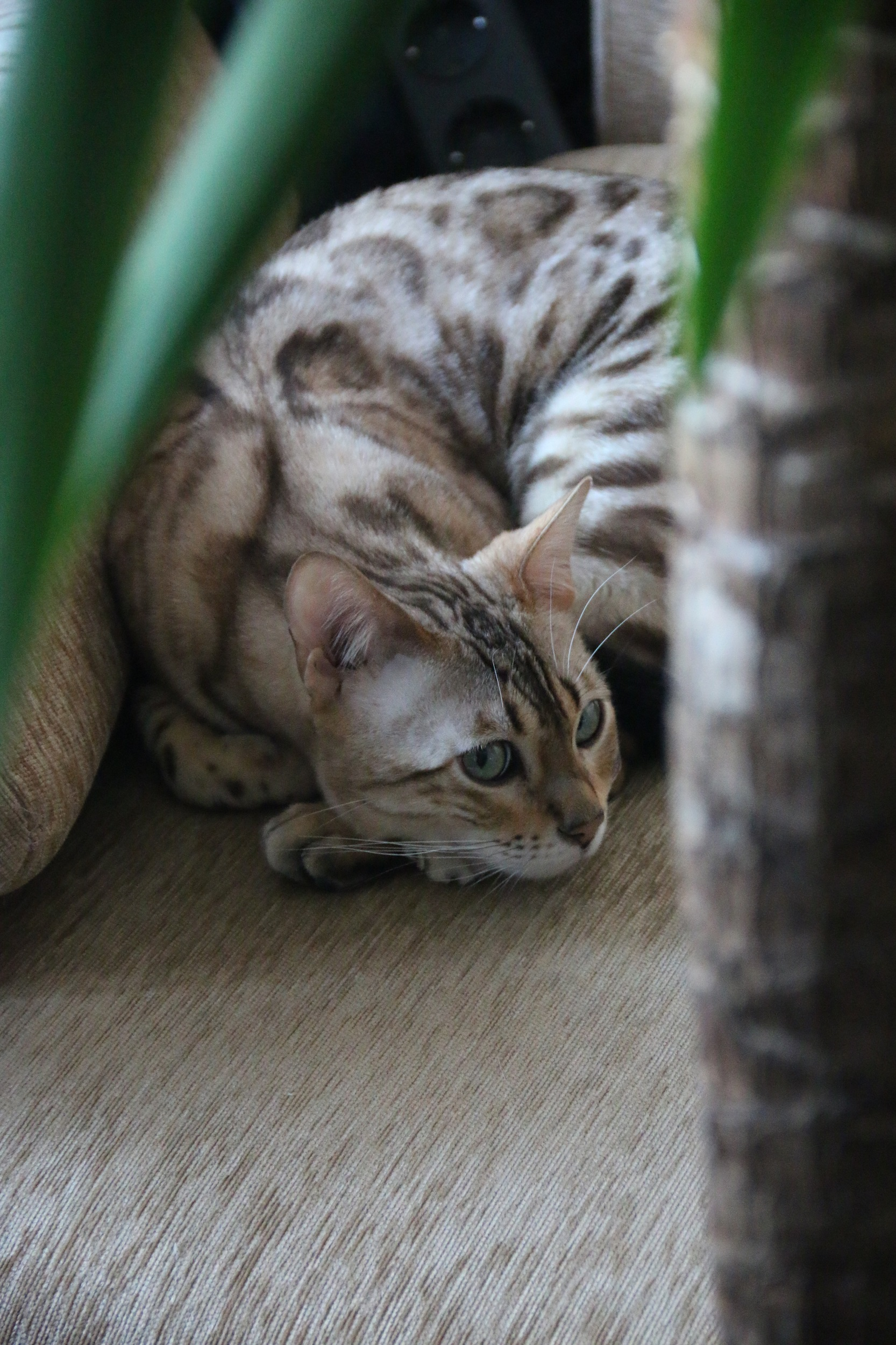 Bengal cat at the sofa